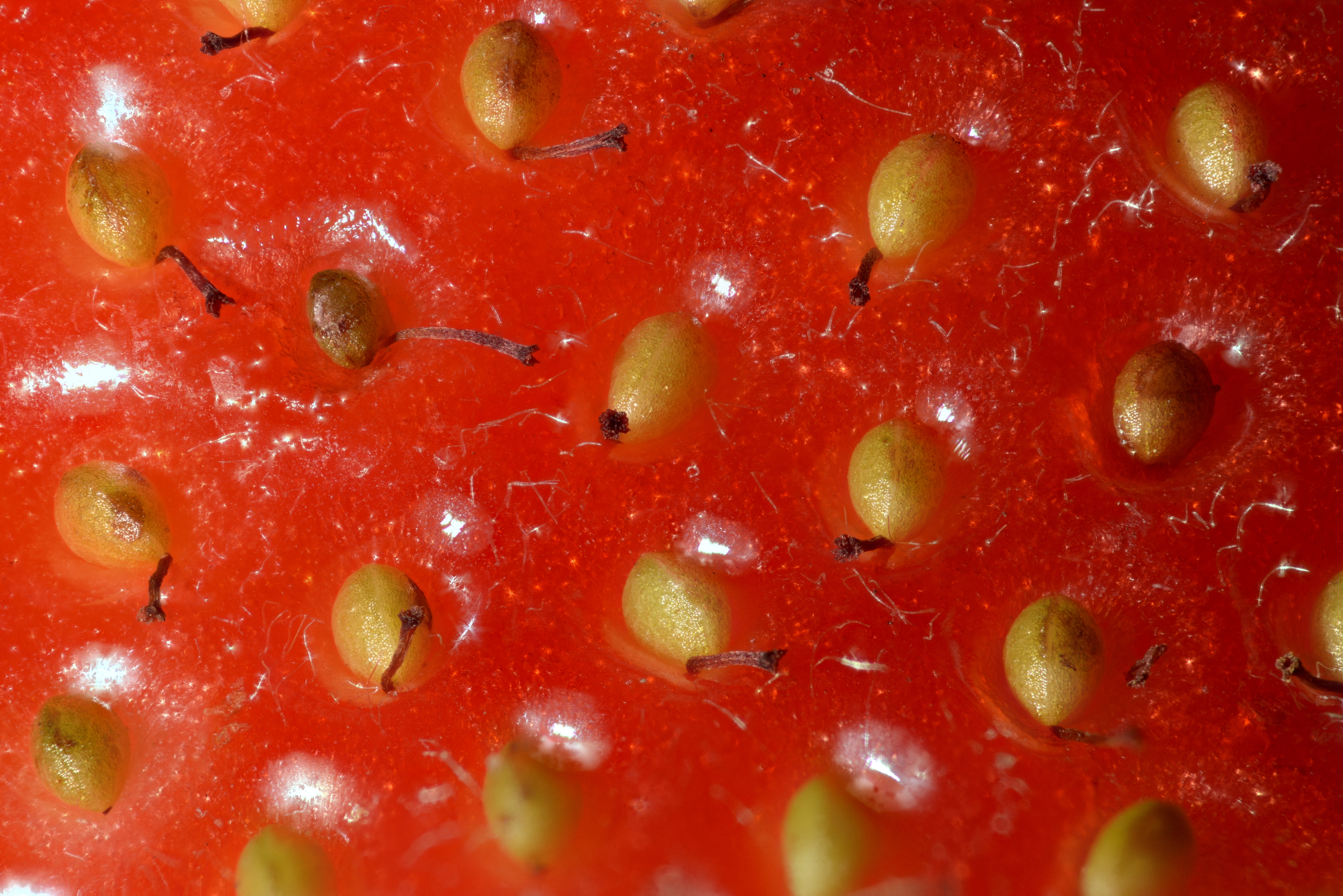 This image was created with Zerene Stacker. Focus stacking of 132 pictures (using Zerene Stacker).Fraise (focus stacking). Image composée de 132 photos prises avec la bonnette Raynox DCR-250 et assemblées avec Zerene Stacker.